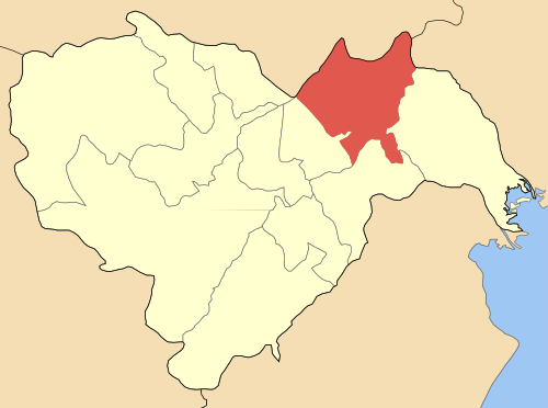 Locator map of Aleksandreias municipality (Δήμος Αλεξάνδρειας) at Imathias perfecture, Greece.